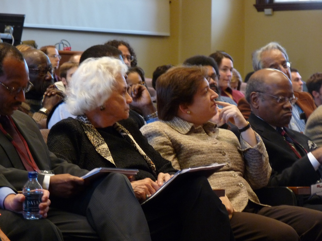 Former U.S. Supreme Court Associate Justice Sandra Day O'Connor with then-Dean of Harvard Law School Elena Kagan